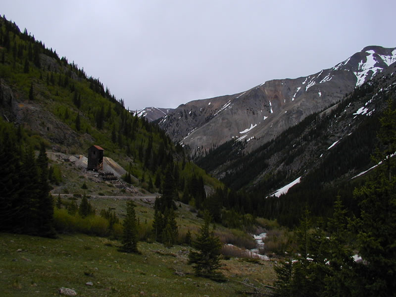 Bonanza-Empire Chief mine & mill near Capitol City ghost town, Colo. The Bonanza-Empire Chief Mill was stabilized in 2000 by the Bureau of Land Management and Hinsdale County Historical Society. In 2007/2008, the mill ruins were demolished by an avalanche.